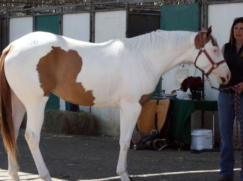 Paint horse